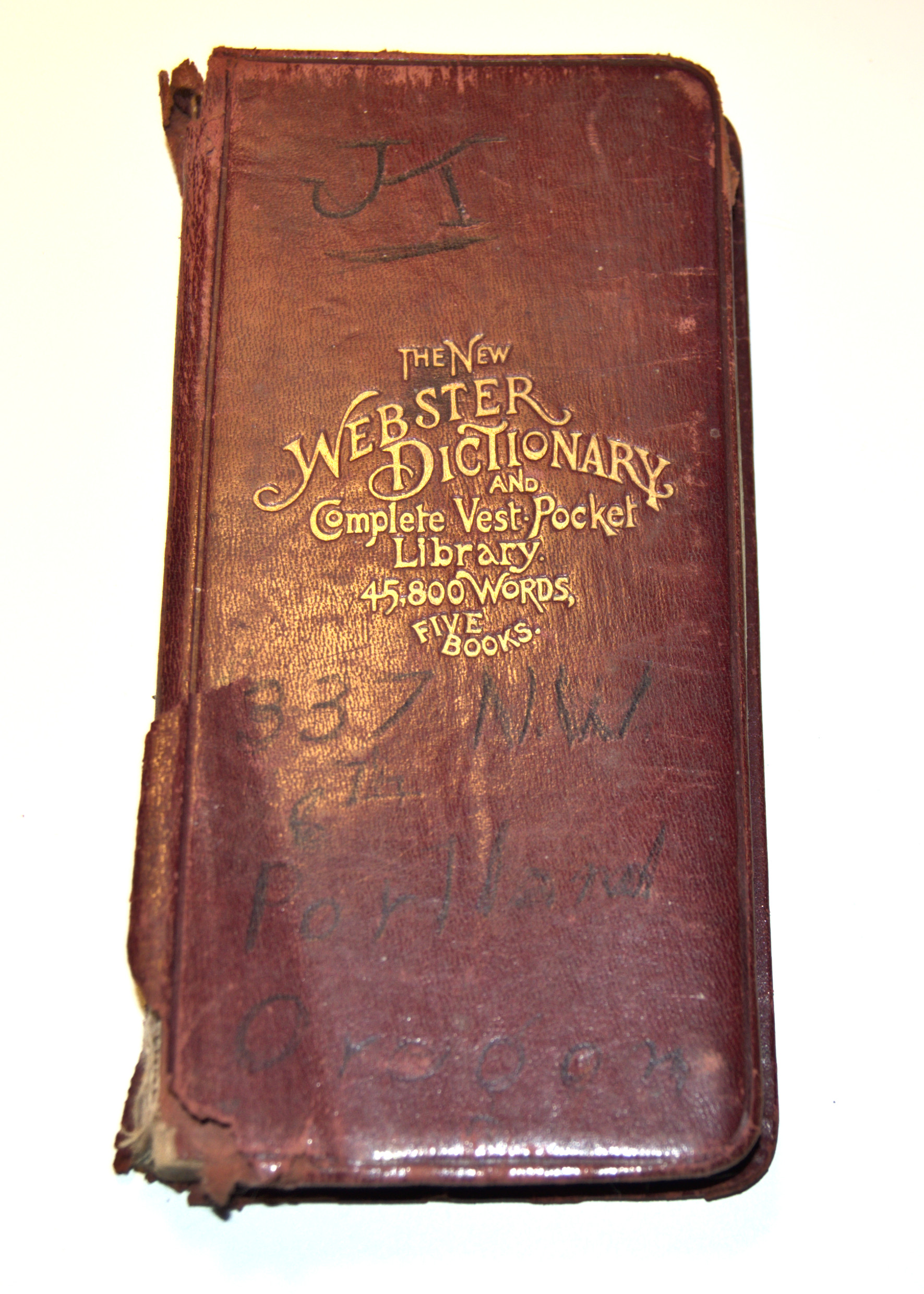 Webster dictionary, short dictionary from the year 1894